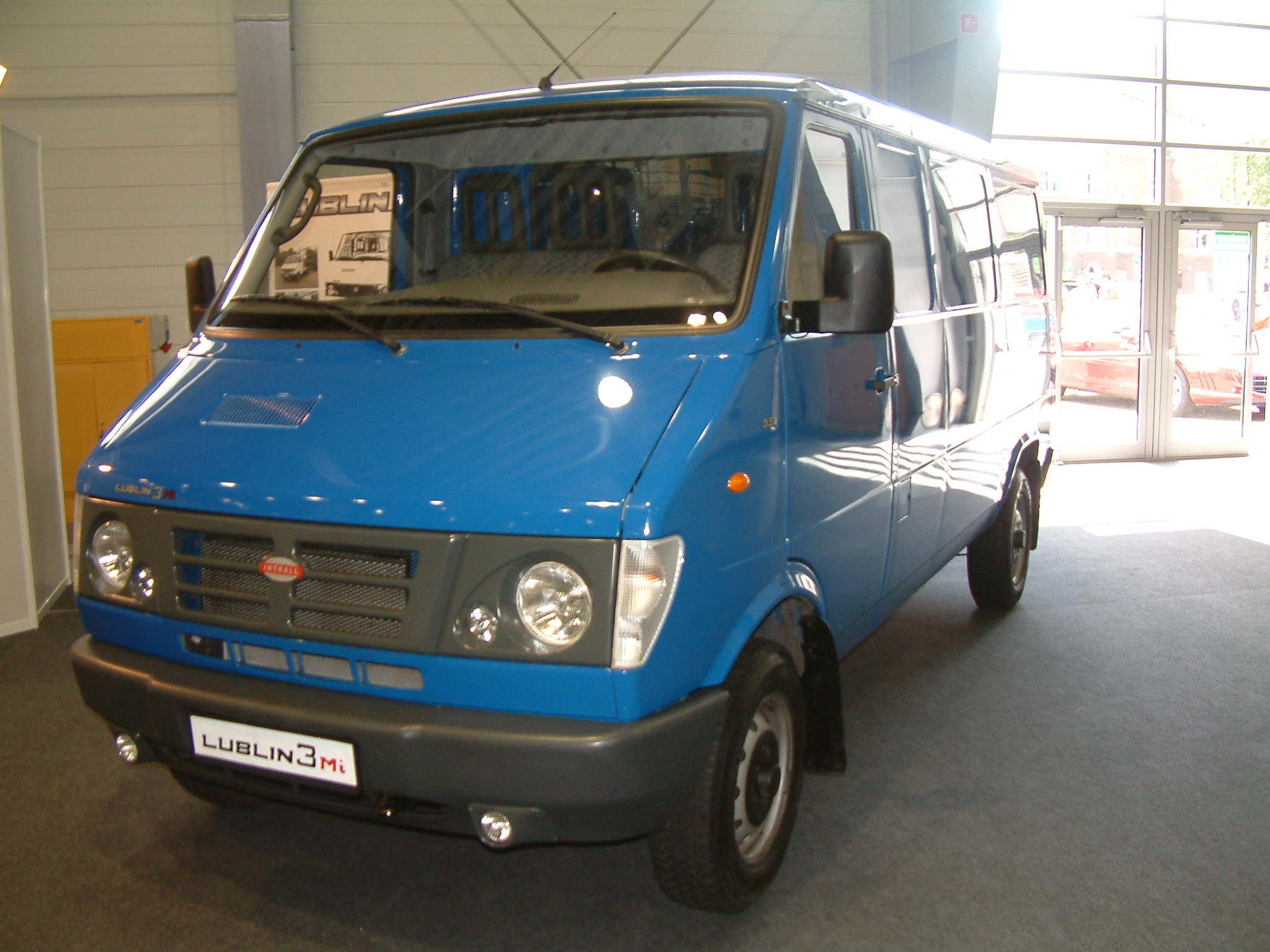 Intrall Lublin 3Mi on Poznańskie Spotkania Motoryzacyjne, Poland.